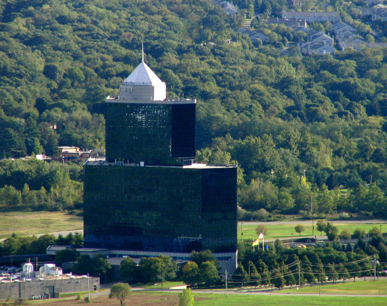 Sheraton Crossroads in Mahwah, New Jersey. Taken by User:Mwanner, 29 September, 2005.